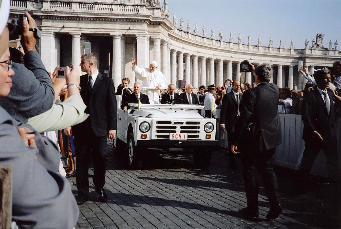 The pope's motorcade was passing by in the Vatican, 2007.